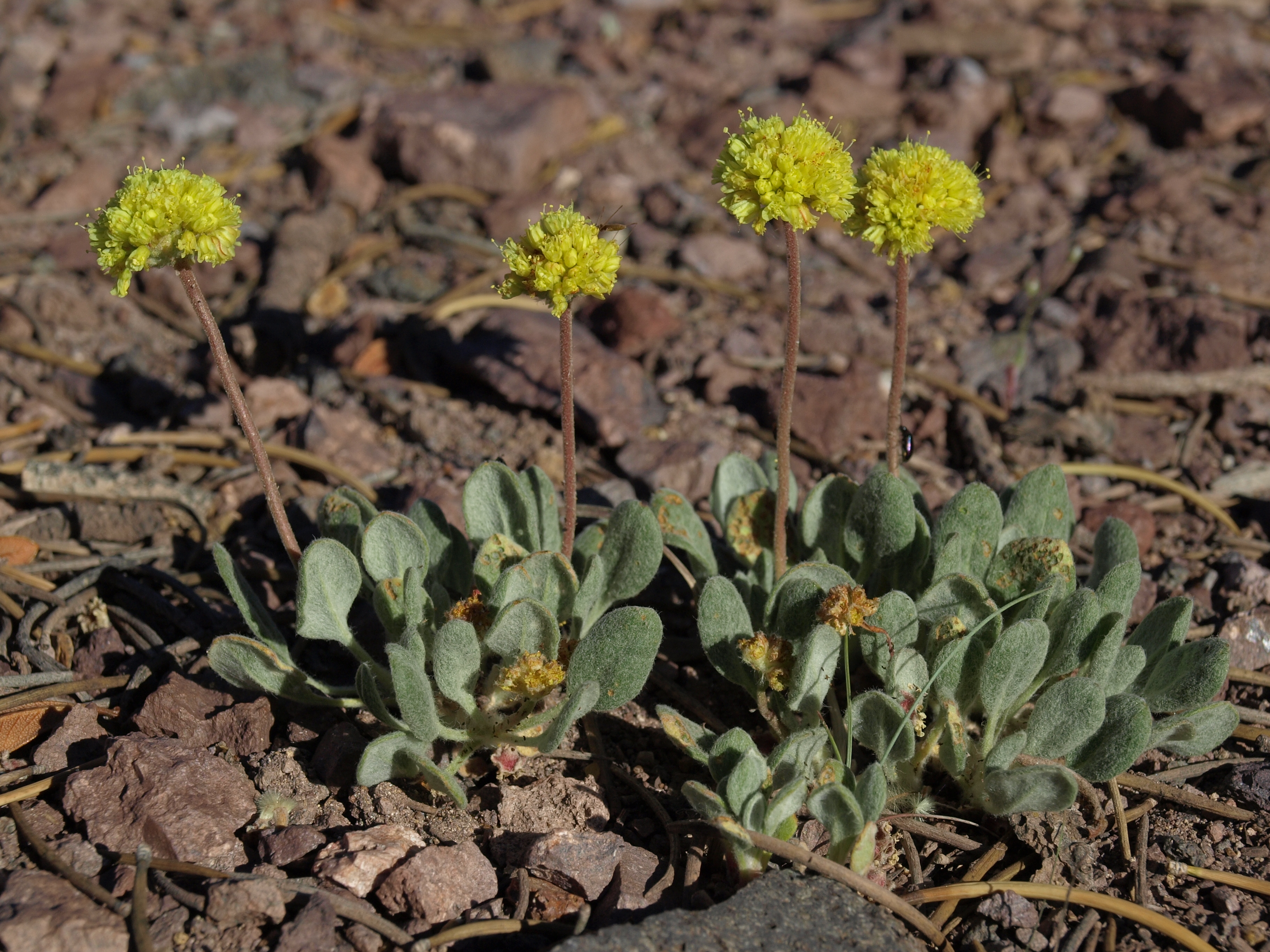 Beatley buckwheat, Eriogonum rosense var. beatleyae, Nevada, White Mountains, Sugarloaf, Pinchot Creek - Columbus Salt Marsh drainage, elevation 2707 m (8880 ft). This rare variety is endemic to west-central Nevada at elevations up to about 2800 meters (9200 feet), usually on clay soils derived from volcanic materials. It's somewhat more common sibling, var. rosense, is found a little farther west in the Sierra Nevada and adjacent Great Basin ranges, at higher elevations up to about 4000 meters (13000 feet), usually on rocky or gravelly, non-clay soils. Both varieties are easily recognized by their combination of densely glandular, non-cobwebby stems and bright yellow flowers. The var. beatleyae has longer leaves with broader, rounder blades, and somewhat larger flowers, than var. rosense. Eriogonum rosense is named for its type location on the summit of Mount Rose between Reno and Lake Tahoe. The var. beatleyae is named for Janice C. Beatley (1919-1987), ecologist and botanist on the Nevada Test Site. Also visible in this image are leaf litter of singleleaf pinyon pine (Pinus monophylla) and curlleaf mountain mahogany (Cercocarpus ledifolius intermontanus).